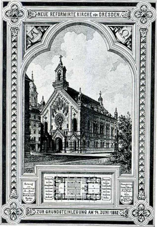 Dresden Reformierte Kirche Erinnerungsblatt zur Grundsteinlegung 1892